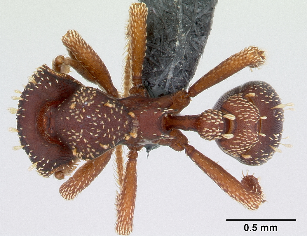 Dorsal view of ant Eurhopalothrix bolaui specimen casent0107554.